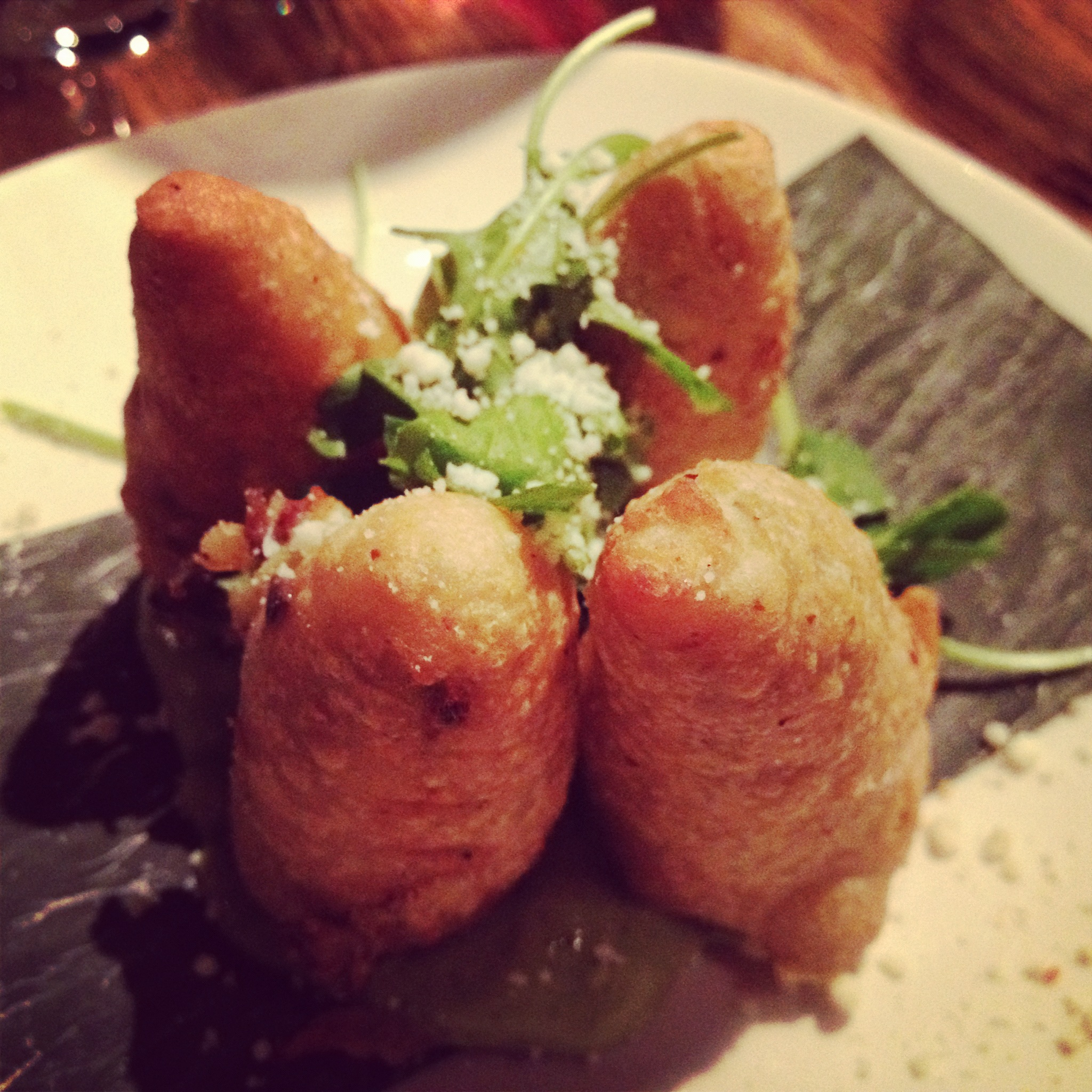 Masa (maize) "torpedos" filled with grilled woodland mushrooms, homemade ricotta, roasted poblano chiles and epazote. A Mexican dish served at Frontera Grill, Chicago, Illinois, USA.